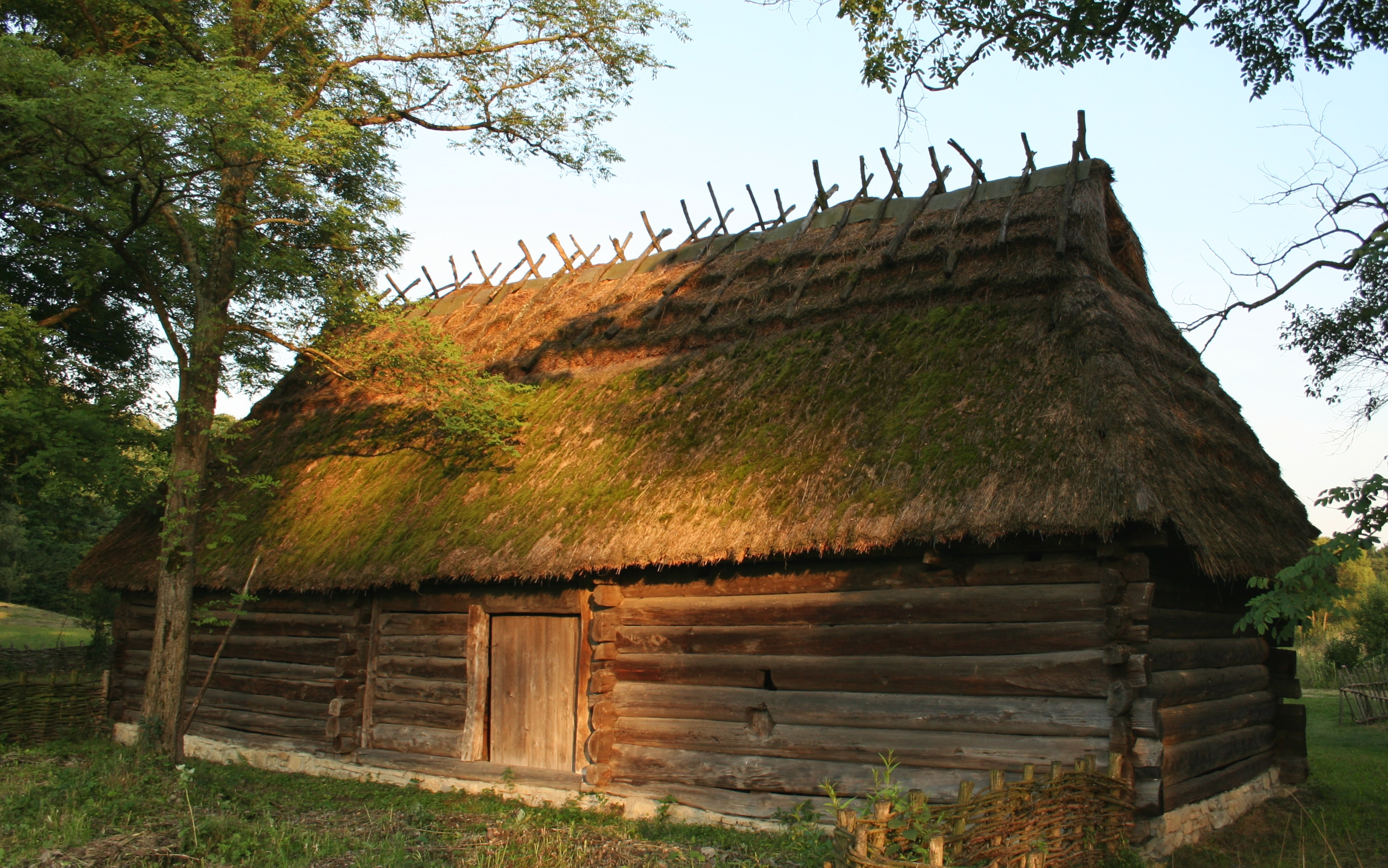 The barn, Skansen in Sanok, Poland